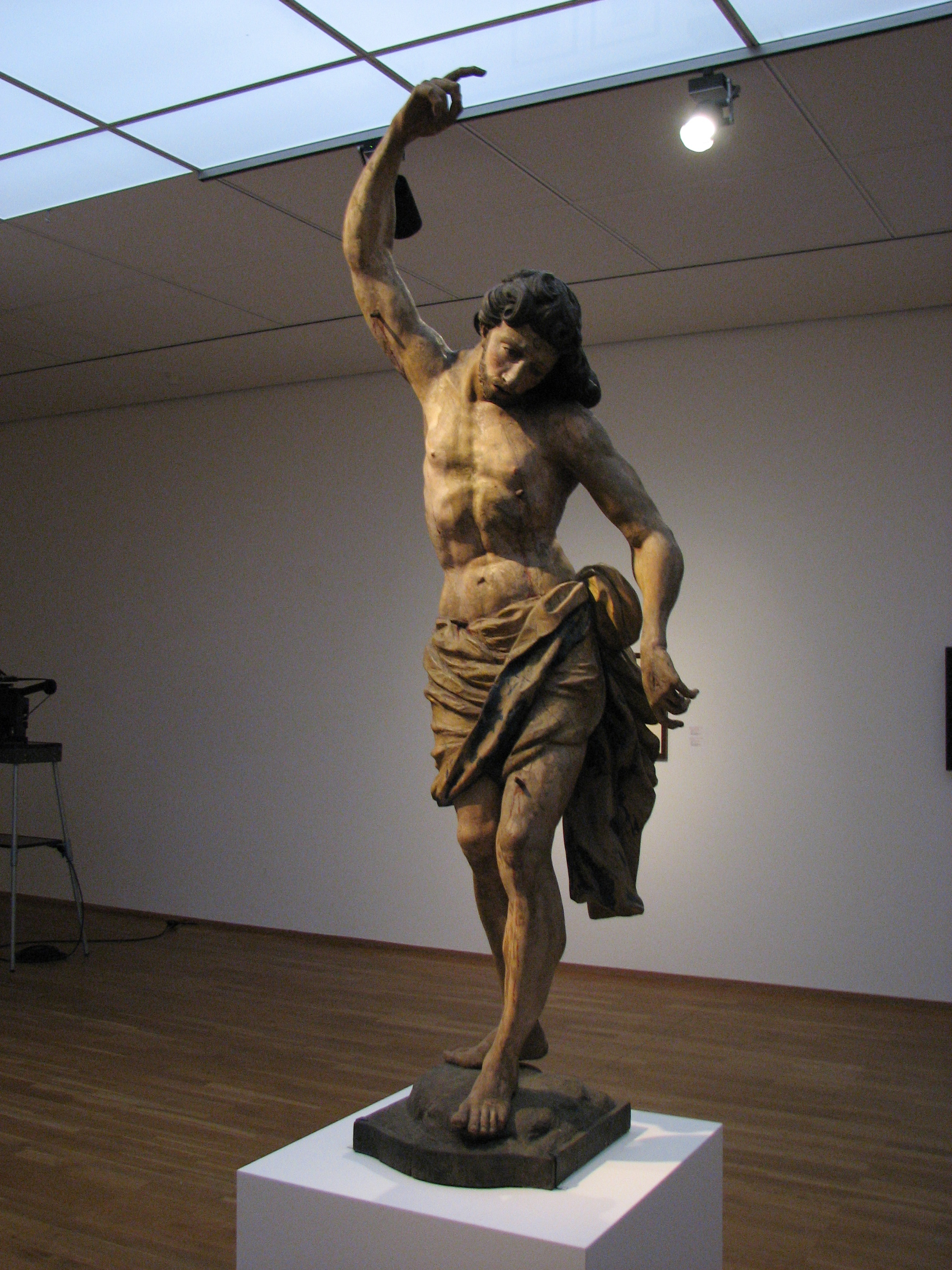 Object of the exhibition "Pain" in Berlin, Germany